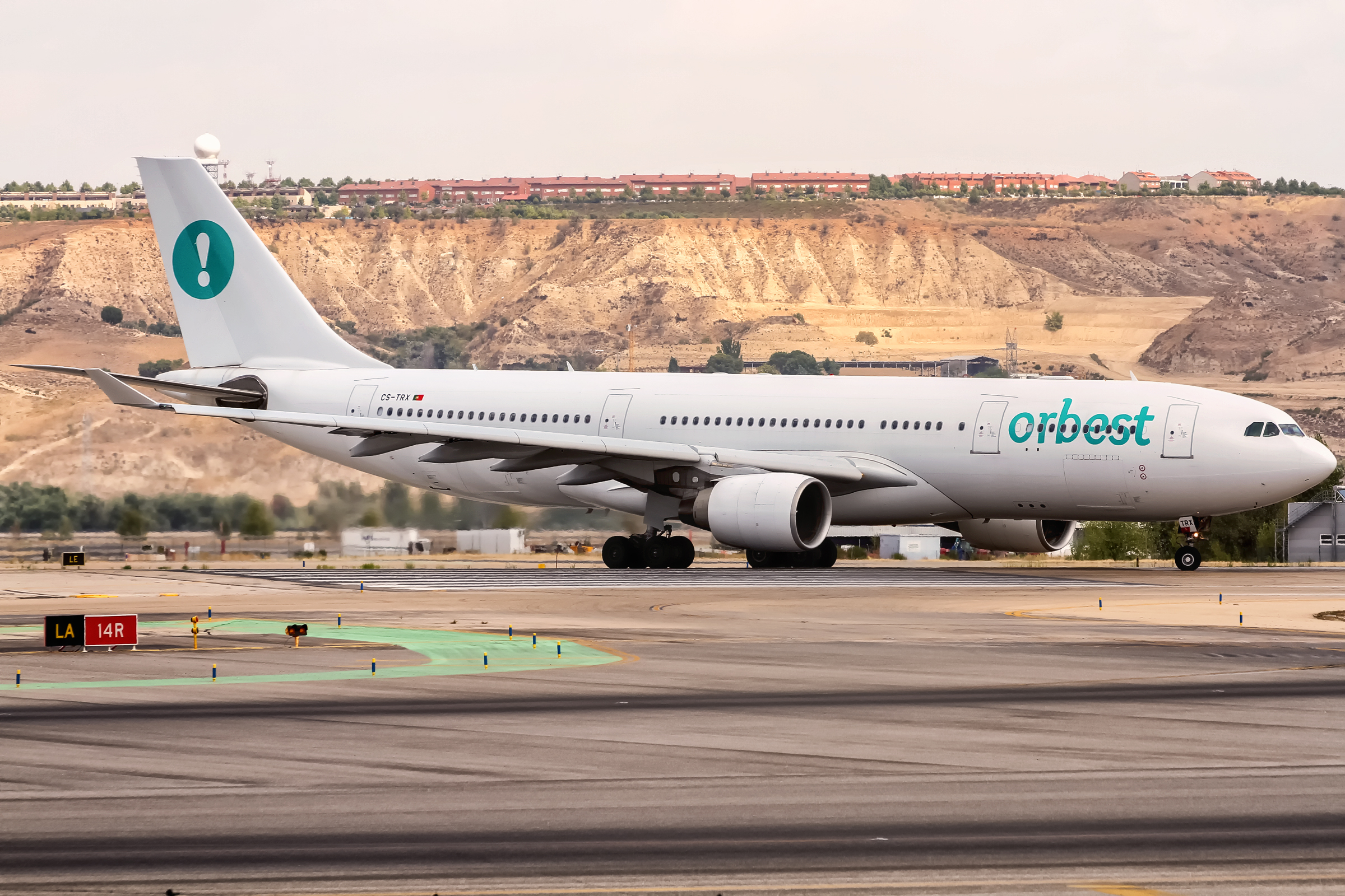 CS-TRX Orbest Airbus A330-223 @ departing viay Rwy 14 to Cancun (CUN) @ Madrid Barajas (MAD) / 21.8.2015